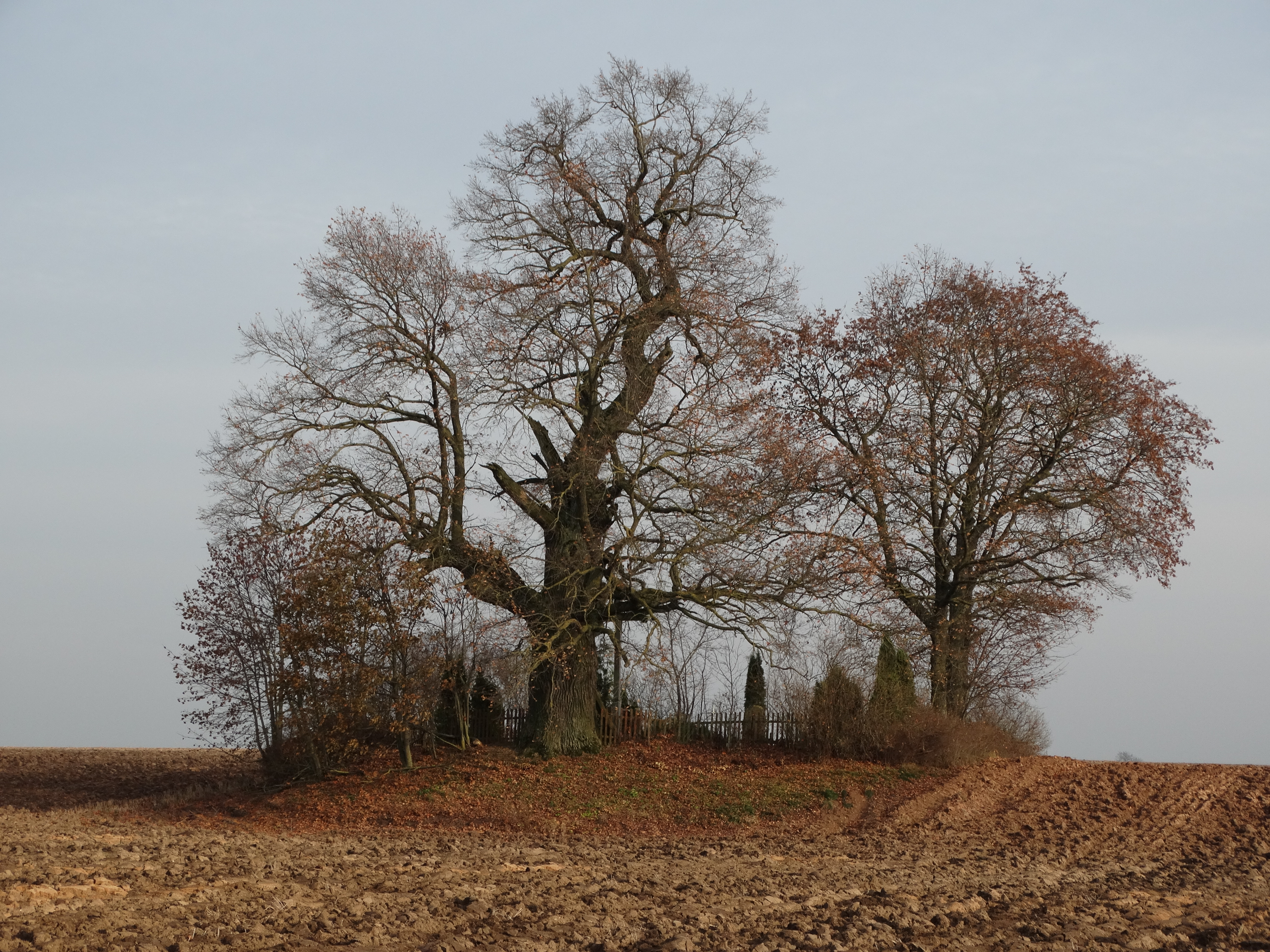 Oak tree in Žadeikoniai, Pasvalys District, Lithuania